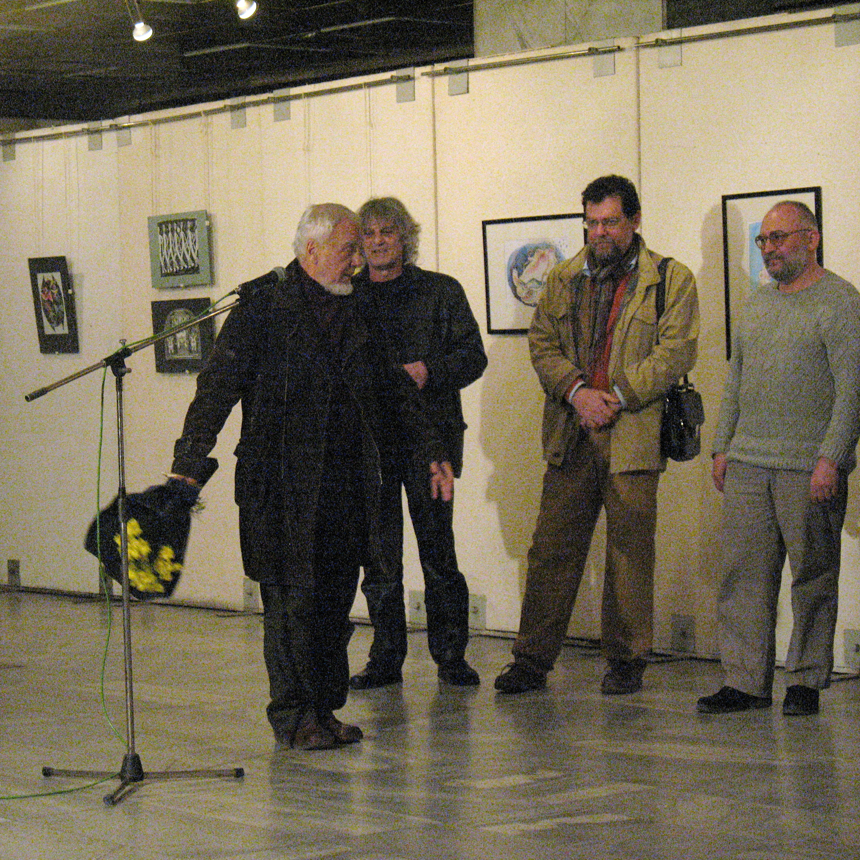 Milko Dikov, Caricaturist